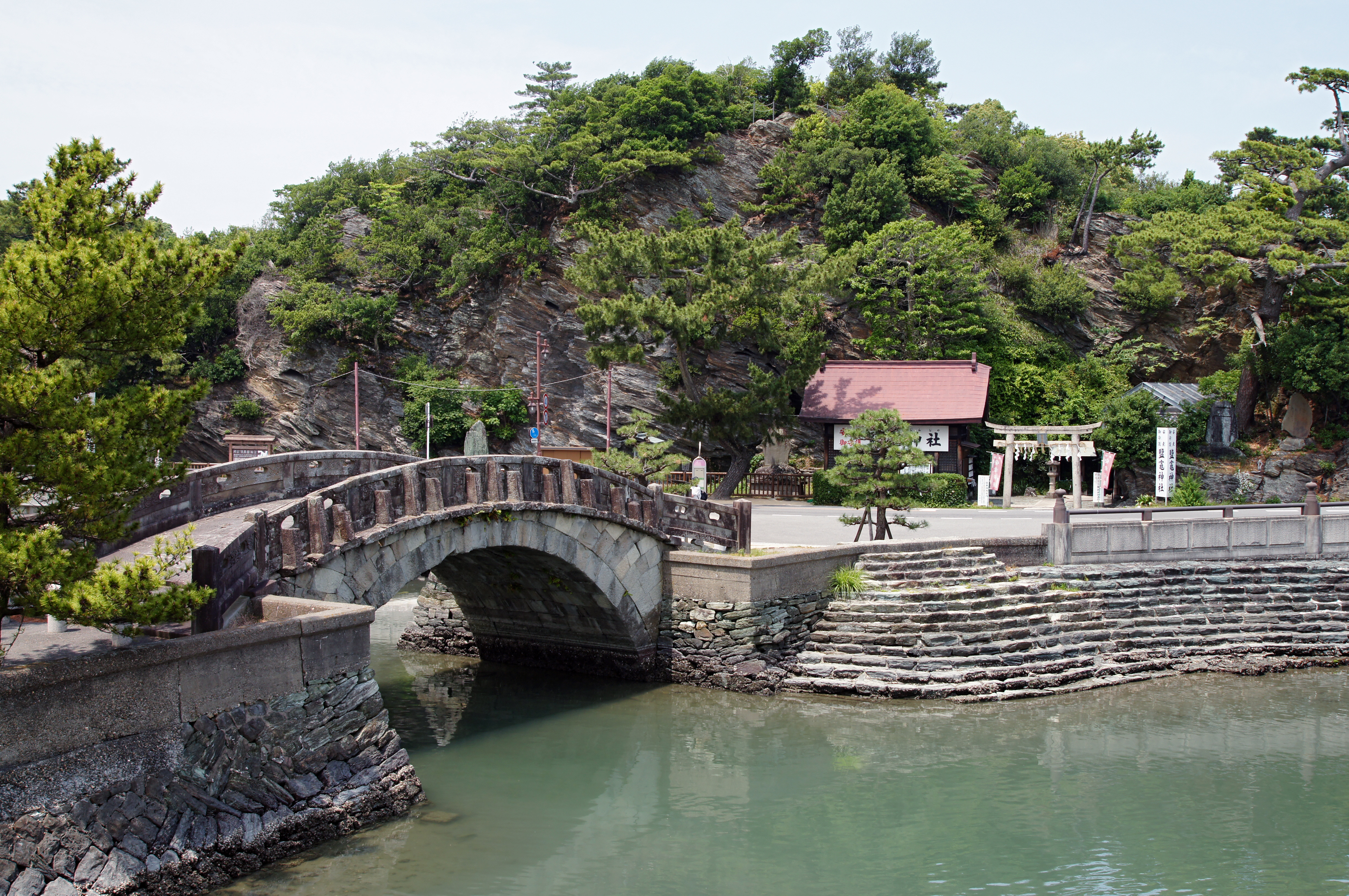 Furobashi in Wakanoura, Wakayama, Wakayama prefecture, Japan